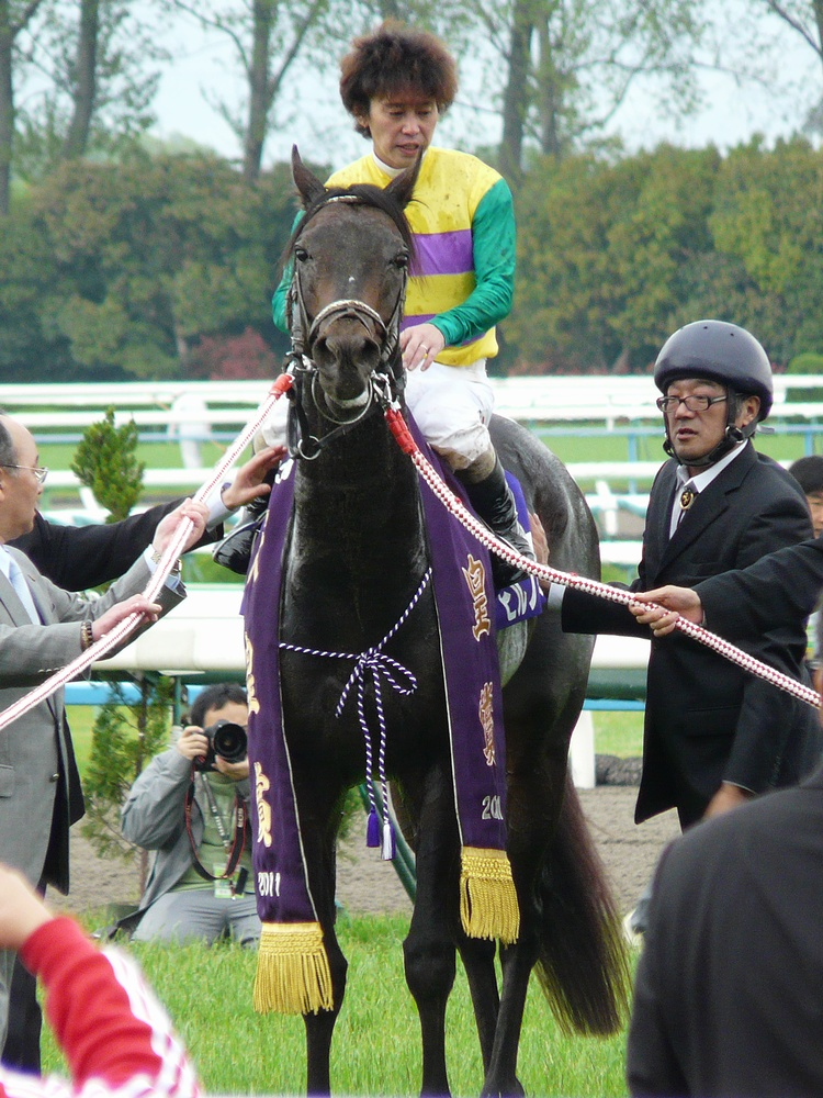 Hiruno-Damour20110501(2)